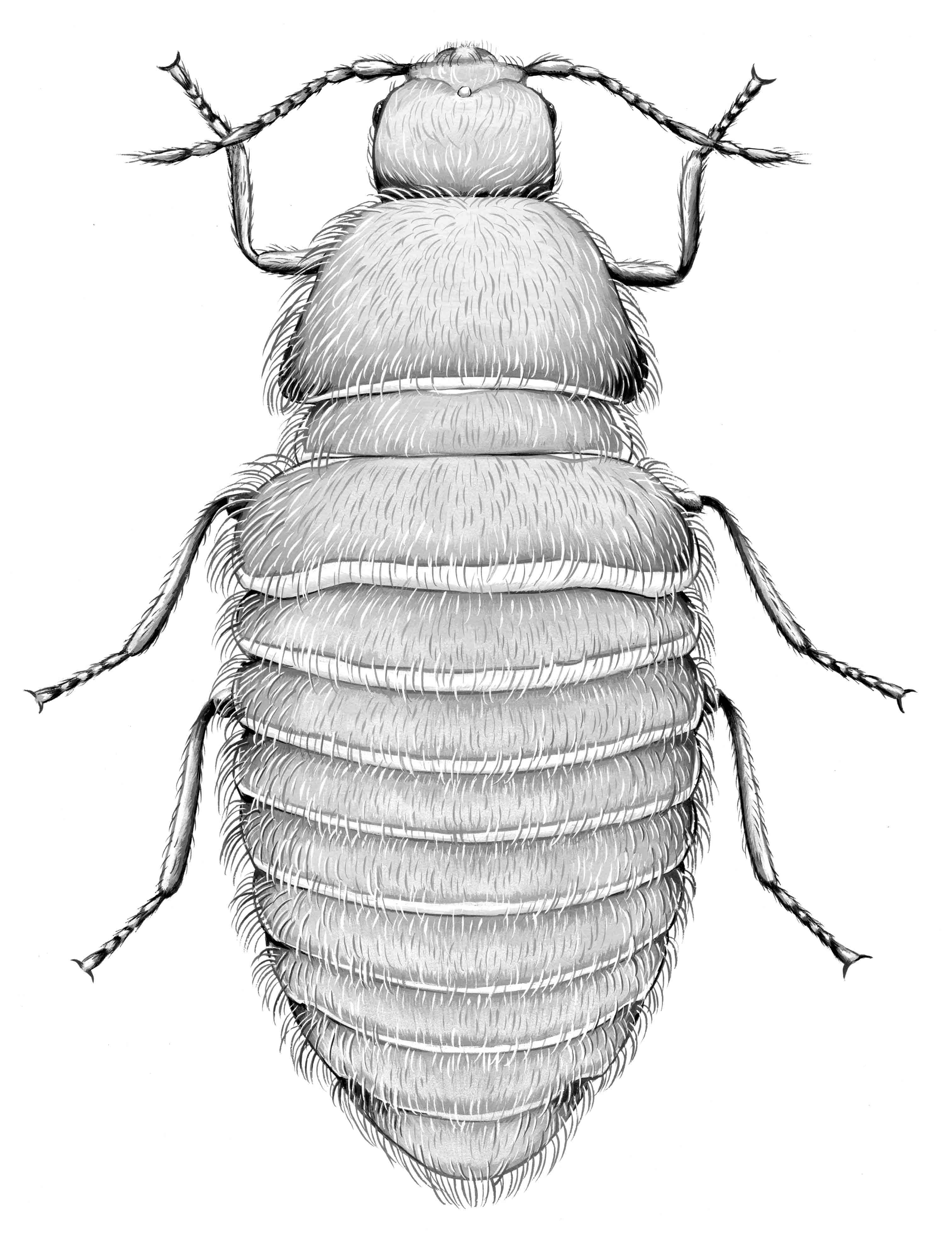 Habitus drawing female odd beetle